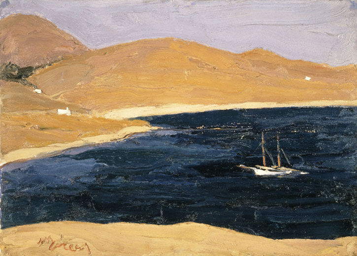 Nikolaos Lytras, Seascape circa 1925, oil on canvas, 53 x 73 cm, National Gallery of Greece